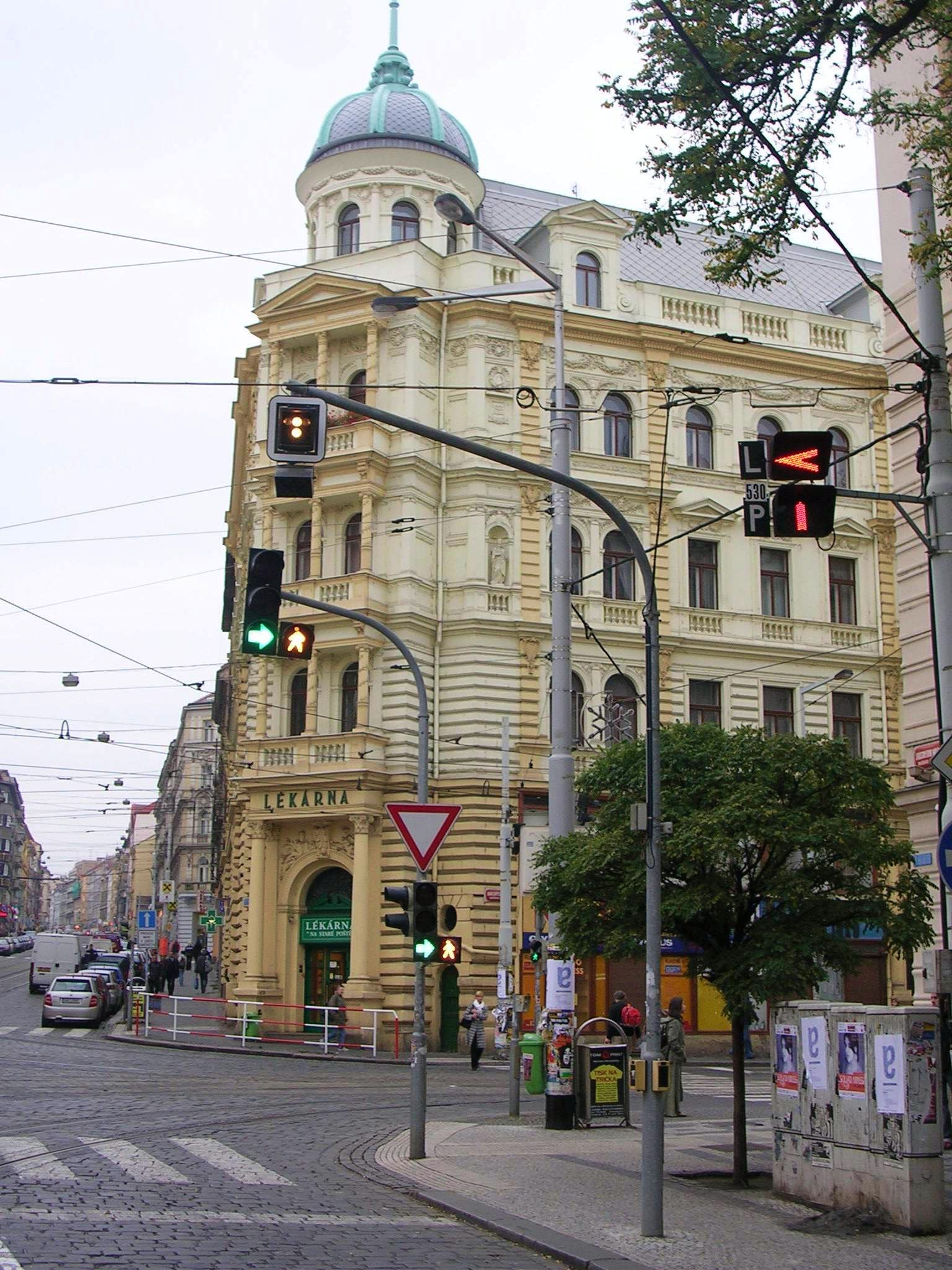 Holešovice, Prague, the Czech Republic. Strossmayerovo Square. Trafic signals.